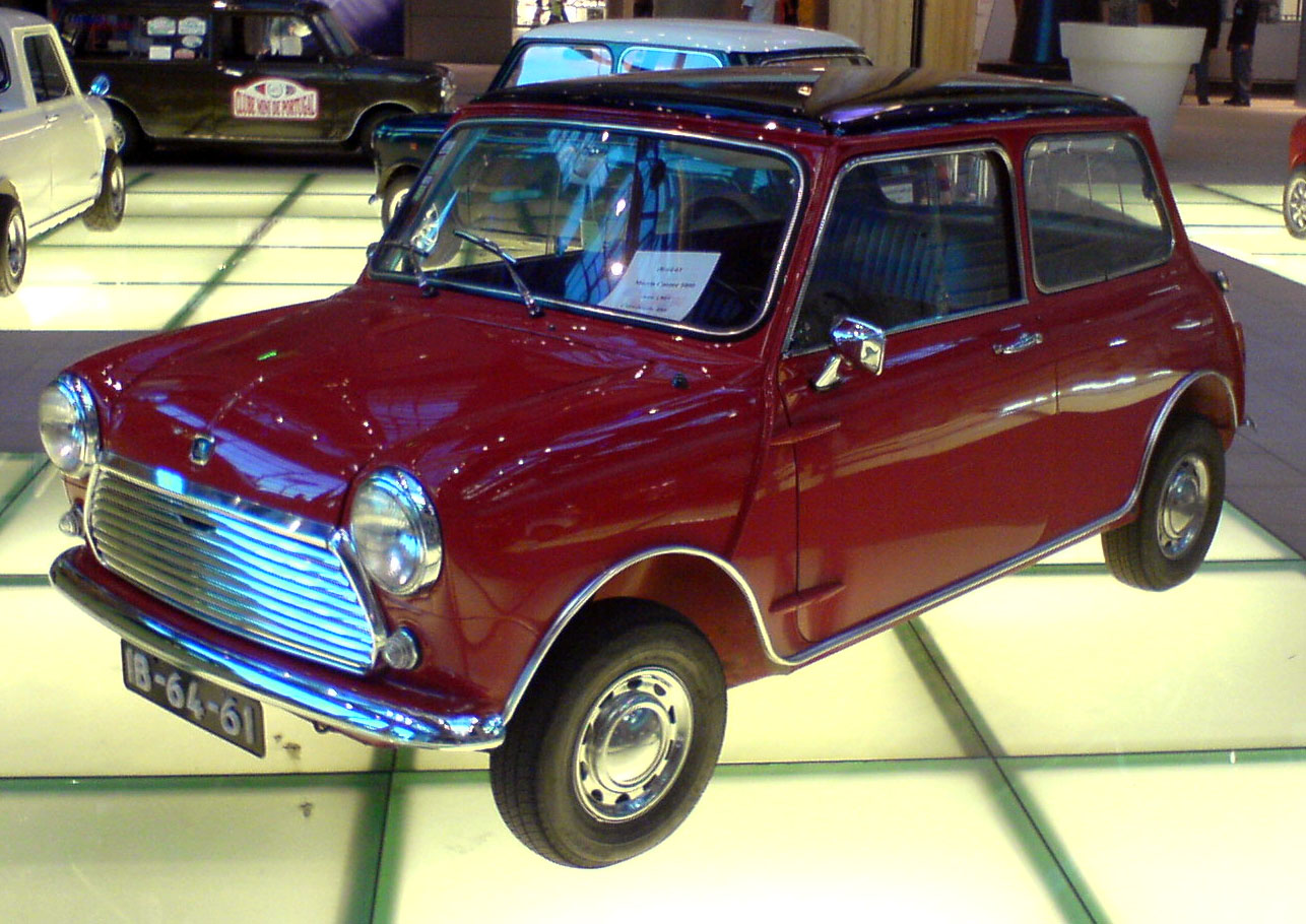 A Morris Cooper from 1969. Photographed inside the Dolce Vita shopping in Porto.